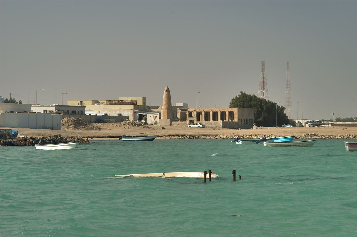 Beach in Ruwais, northern Qatar.